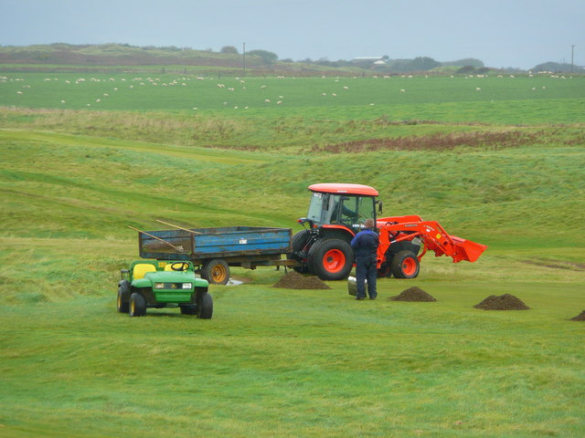 Golf course maintenance Royal Porthcawl Golf Club operatives are working on the greens and tees to get the grass in good shape to go through the winter.